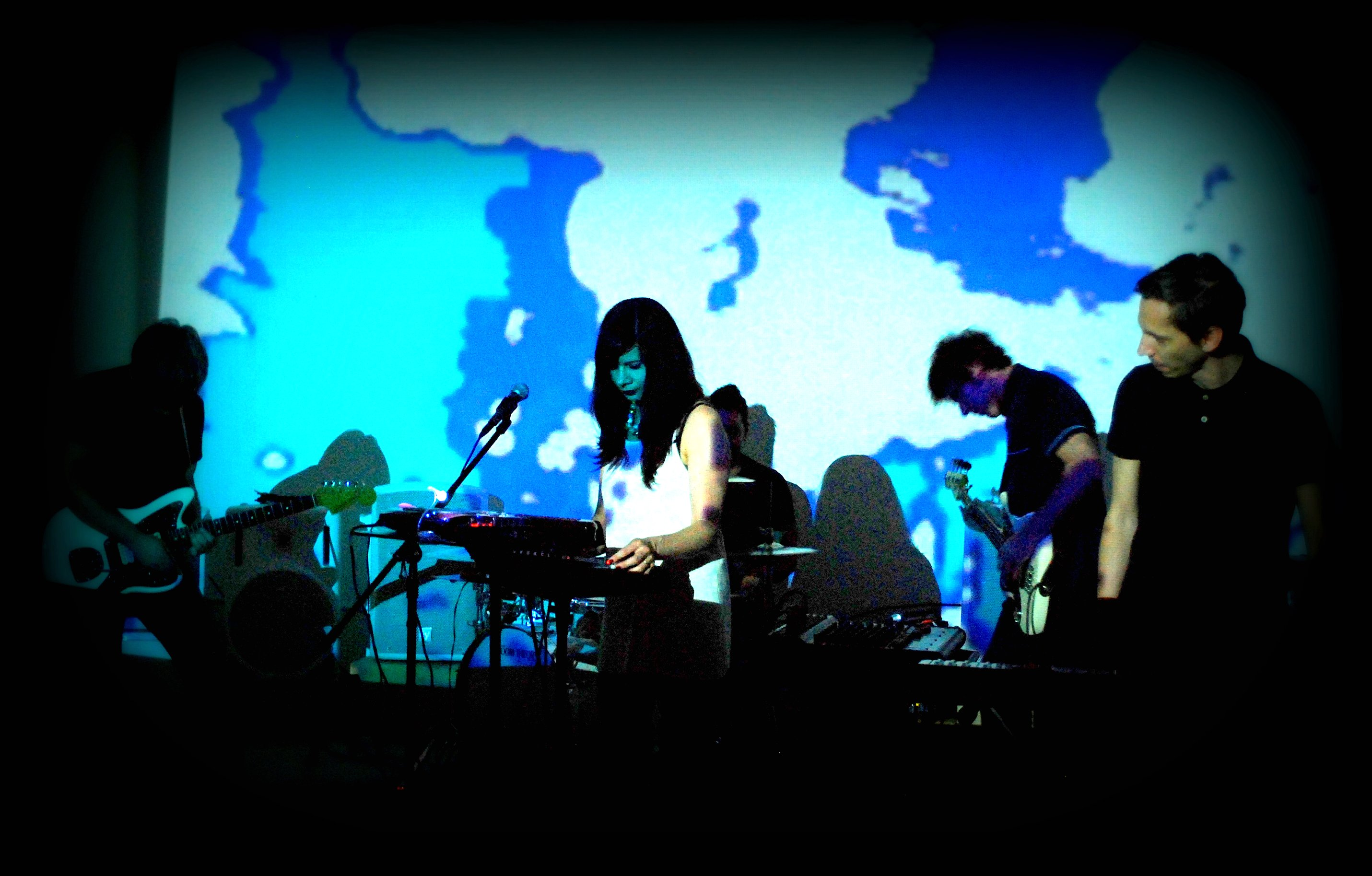 Soundpool CD Release Party for Mirrors In Your Eyes, Aloft